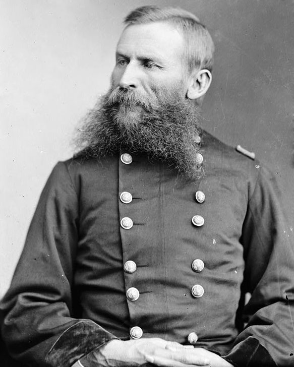 Gen. George Crook, U.S.A., between 1873 and 1880. Library of Congress, Prints and Photographs Division, Brady-Handy Collection, reproduction number LC-DIG-cwpbh-04032.